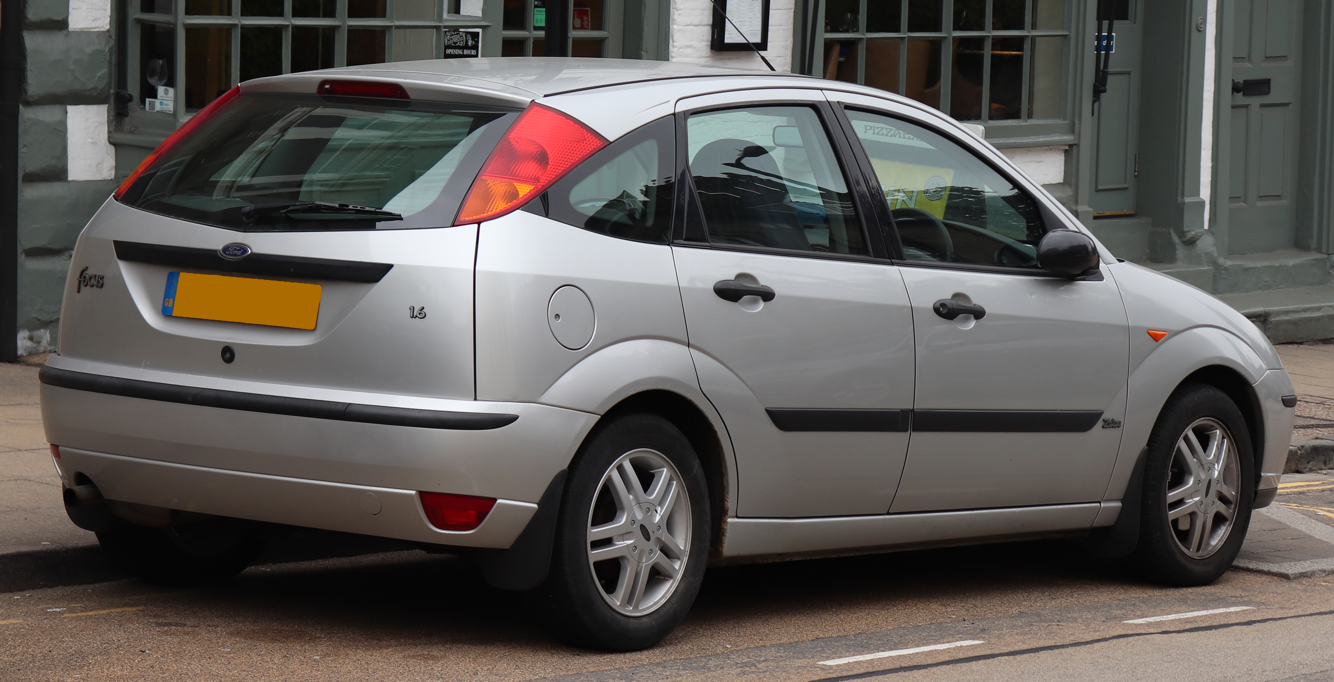 2003 Ford Focus Zetec 1.6 Rear Taken in Warwick